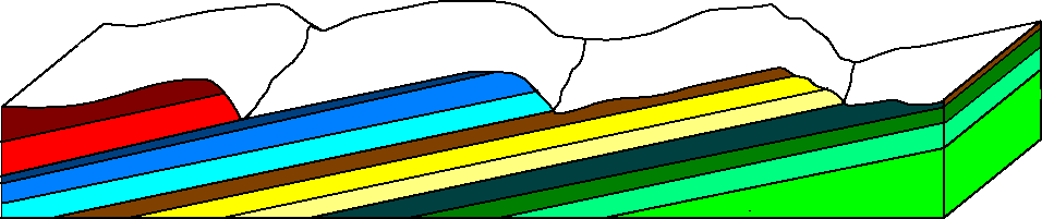 Cuesta schematic - drawn in Inkscape - darkly colored hard layers of rock, lightly colored softer layers.